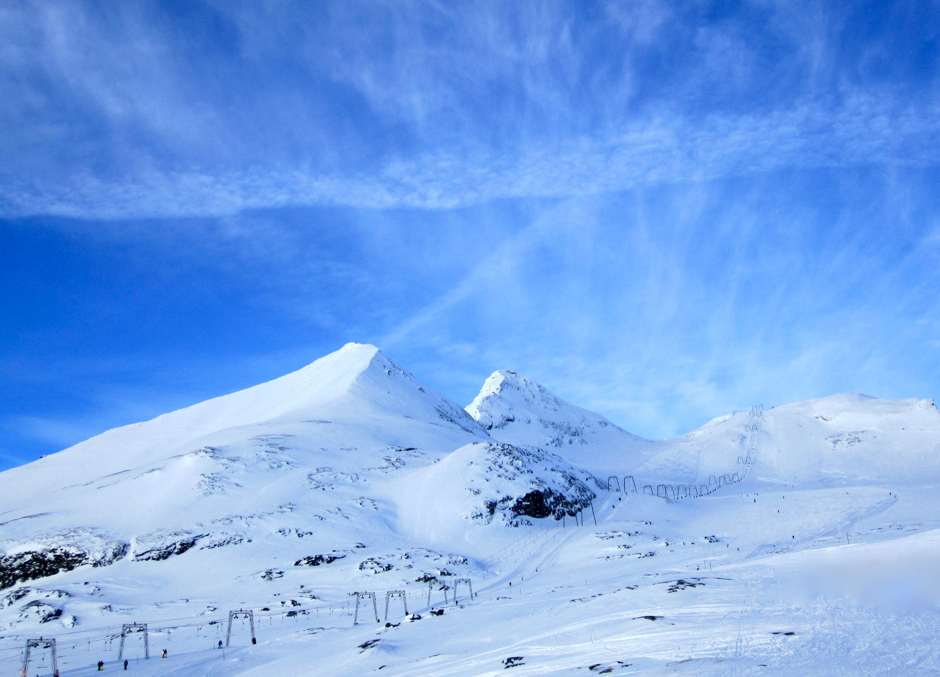 View of the Vorabgletscher, Switzerland.